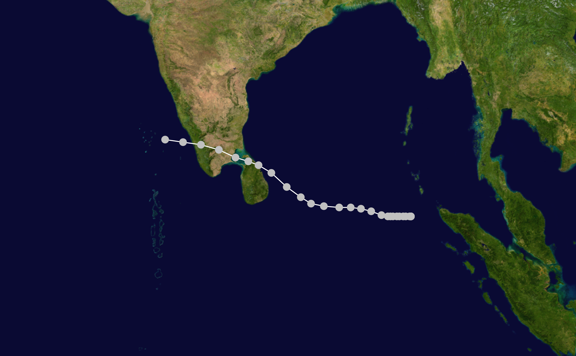 1964 Dhanushkodi cyclone track. Uses the color scheme from the Saffir-Simpson Hurricane Scale. The points show the location of each storm at six-hour intervals. The colour represents the storm's maximum sustained wind speeds as classified in the Saffir-Simpson Hurricane Scale (see below), and the shape of the data points represent the nature of the storm. Saffir–Simpson scale Tropical depression≤38 mph≤62 km/h Category 3111–129 mph178–208 km/h Tropical storm39–73 mph63–118 km/h Category 4130–156 mph209–251 km/h Category 174–95 mph119–153 km/h Category 5≥157 mph≥252 km/h Category 296–110 mph154–177 km/h Unknown Storm typeTropical cycloneSubtropical cycloneExtratropical cyclone / Remnant low / Tropical disturbance